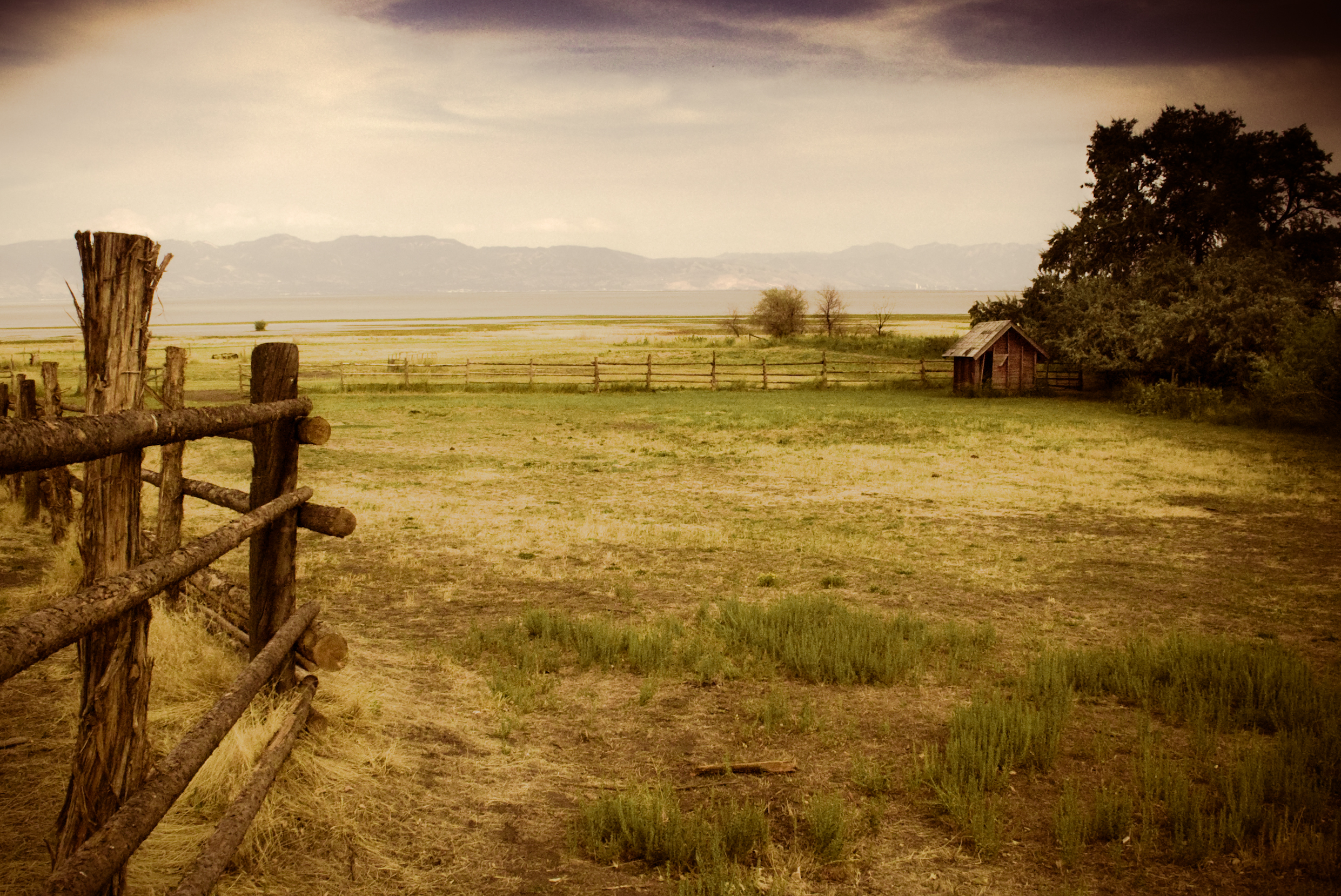 Antelope Island State Park, Utah